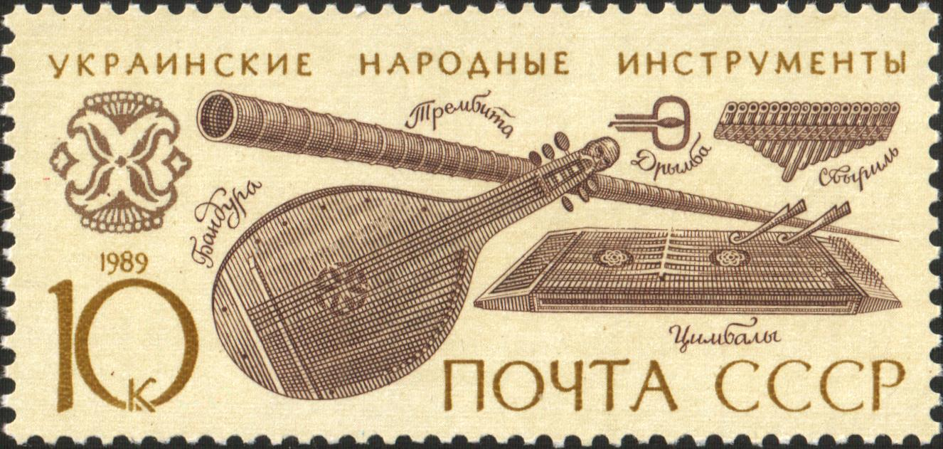 A USSR stamp